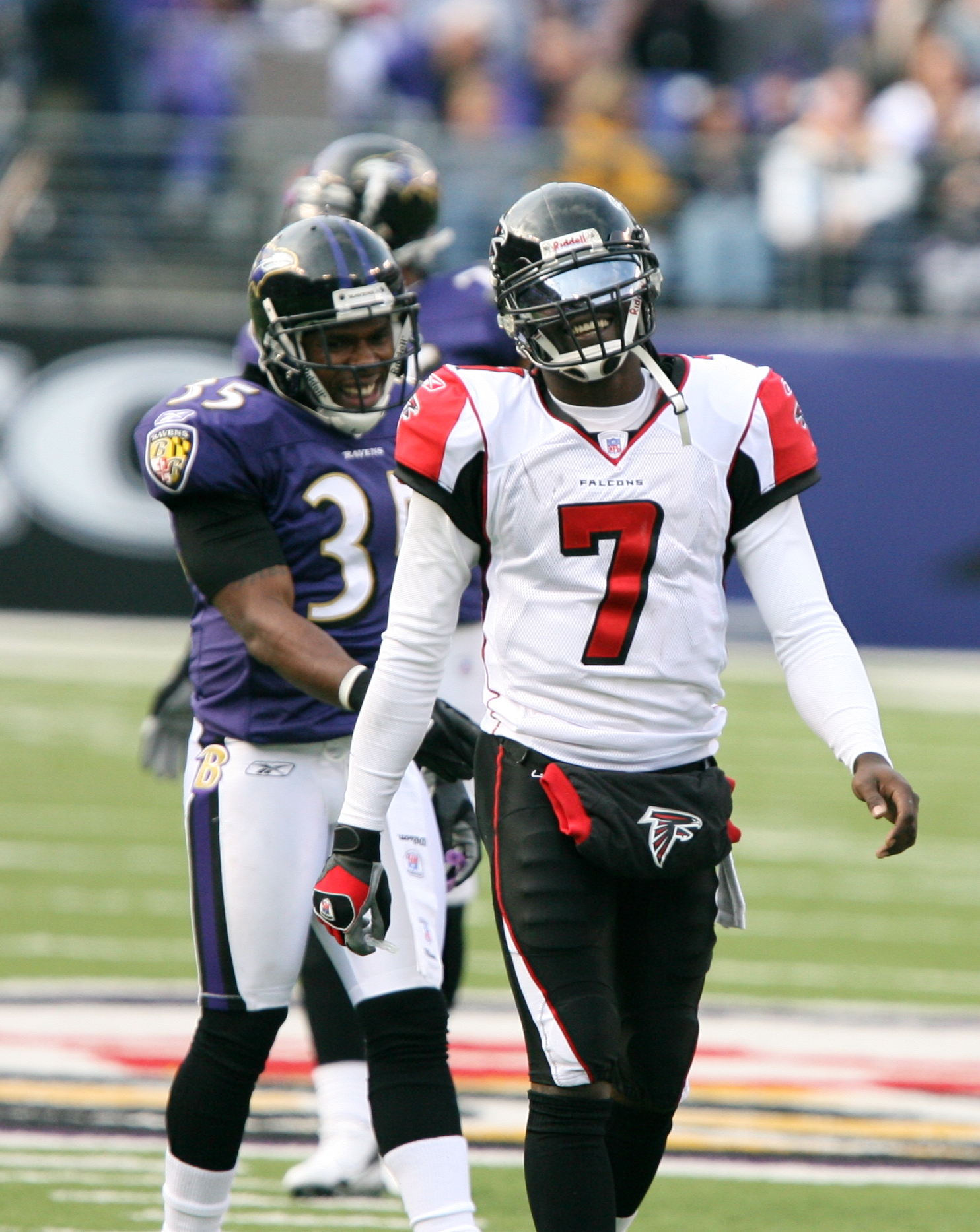 Corey Ivy and Michael Vick during a game against the Baltimore Ravens, November 19, 2006.